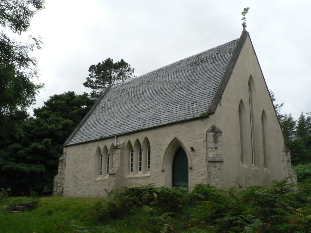 Isle of Eigg: Sandavore Kirk The church was closed; its doorknob broken and on the step by the door, with the mechanism severed. It was therefore closed, but looked in good order through the windows.